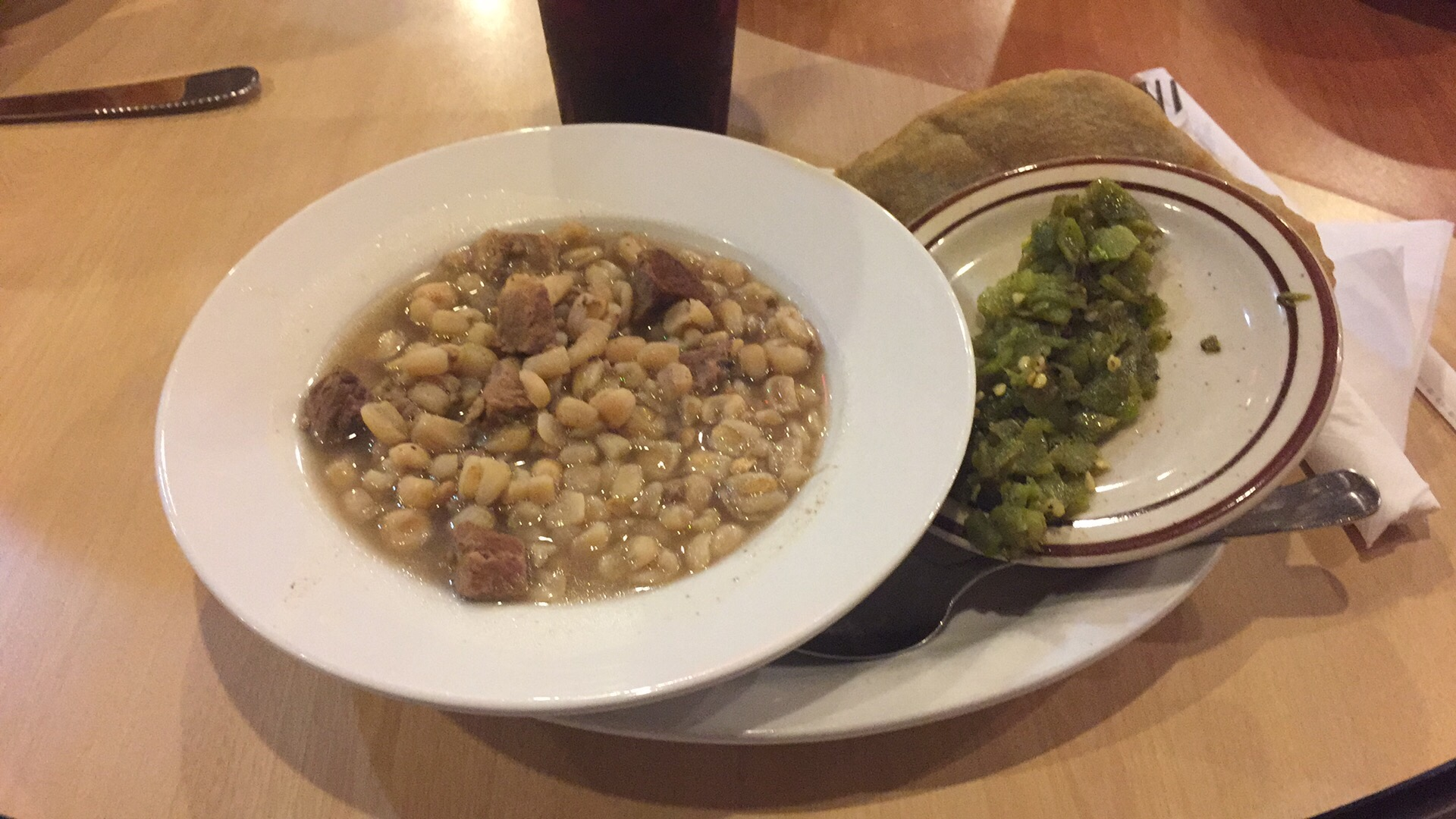 A traditional Hopi dish, Noqkwivi, it is lamb and hominy stew with blue corn tortillas.